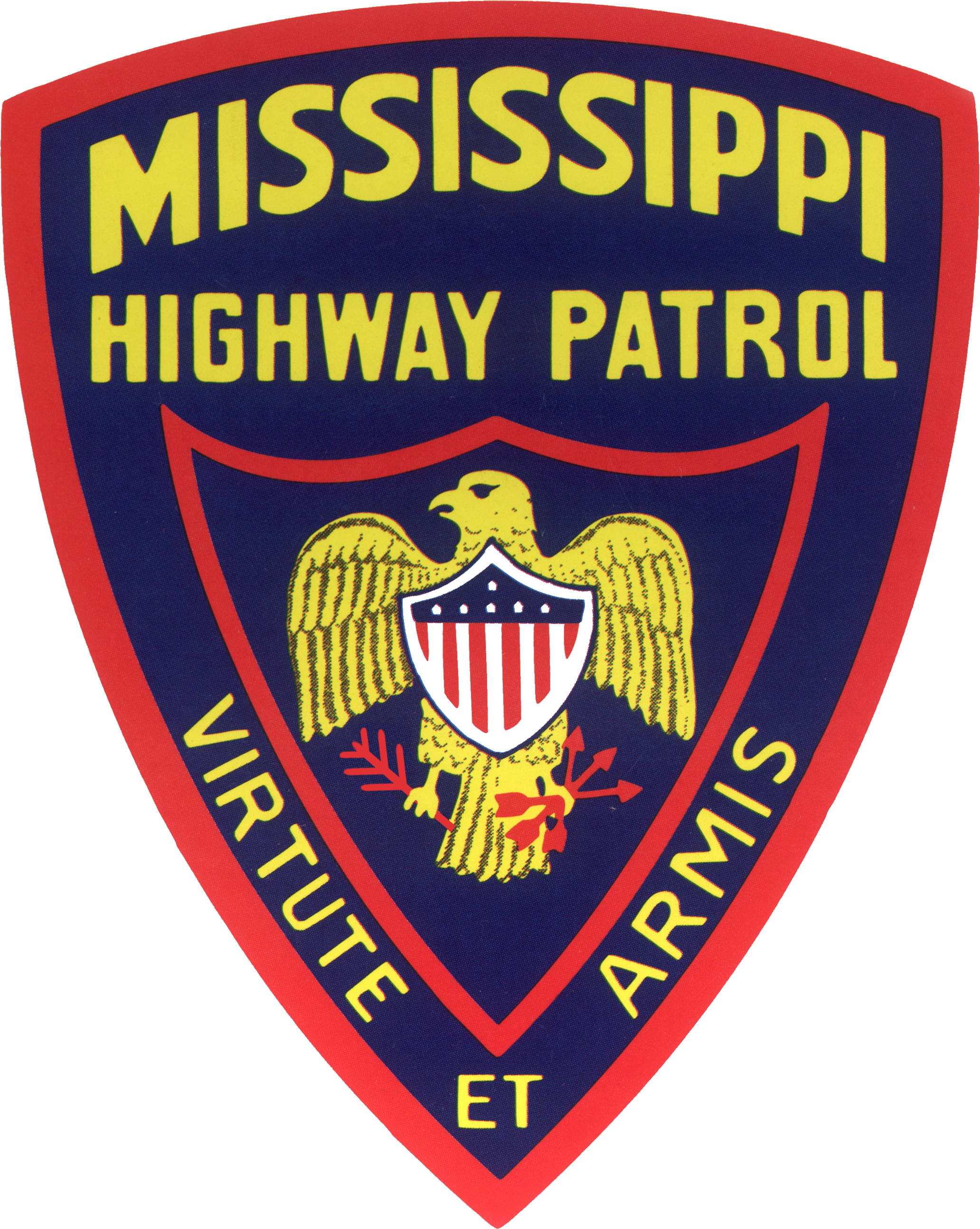 MHSP.